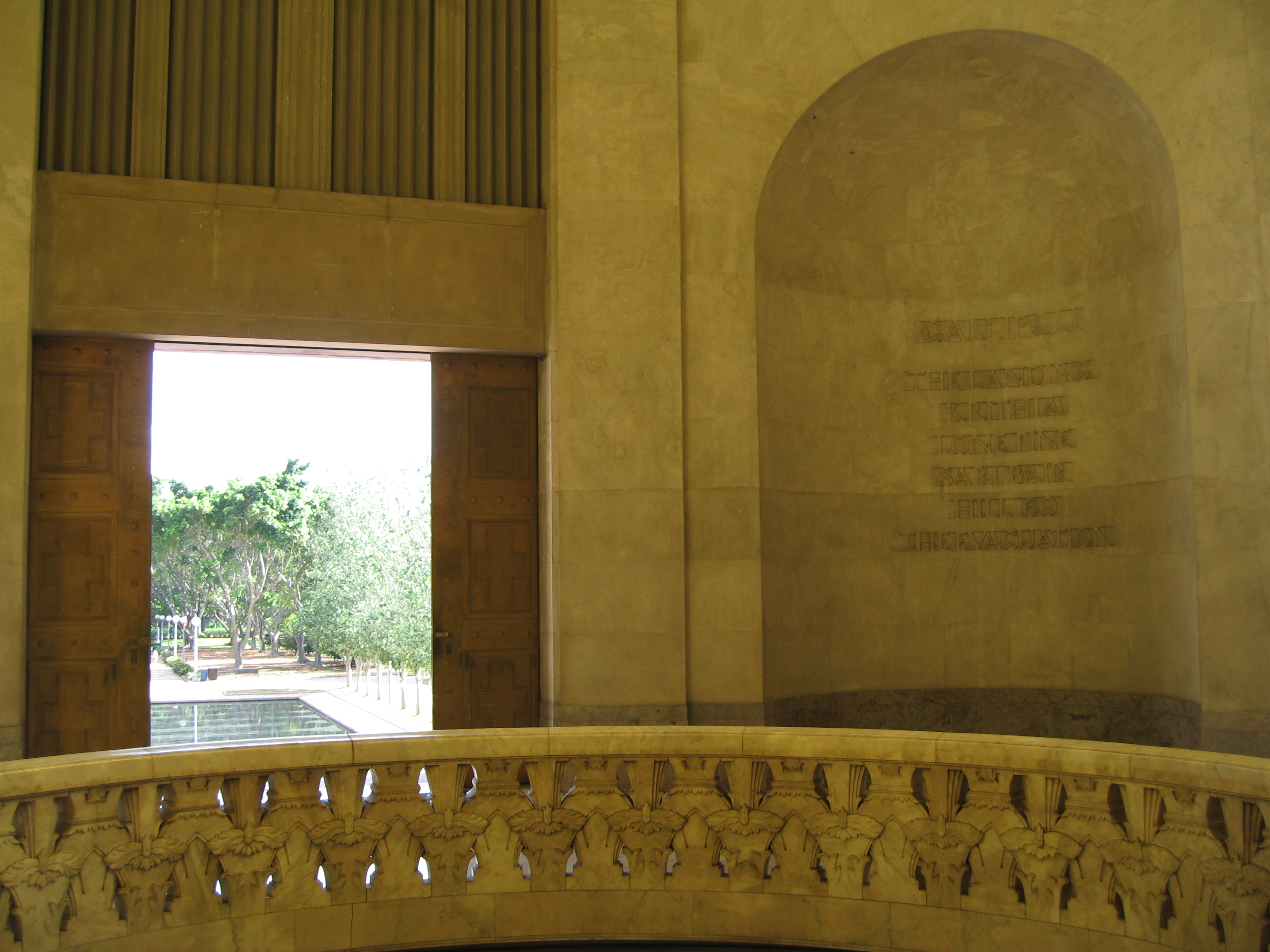 Interior of ANZAC War Memorial, Hyde Park, Sydney, Australia.